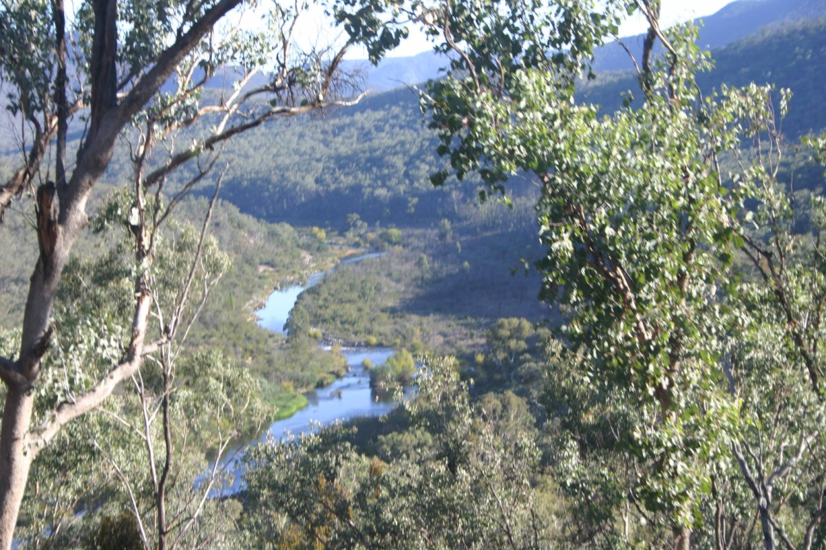 The Snowy River from McKillops Road in the Snowy River National Park, Victoria, Australia. Photo taken April 2005 by Takver ( on the Wilderness Bike Ride. Released under GNU FDL.